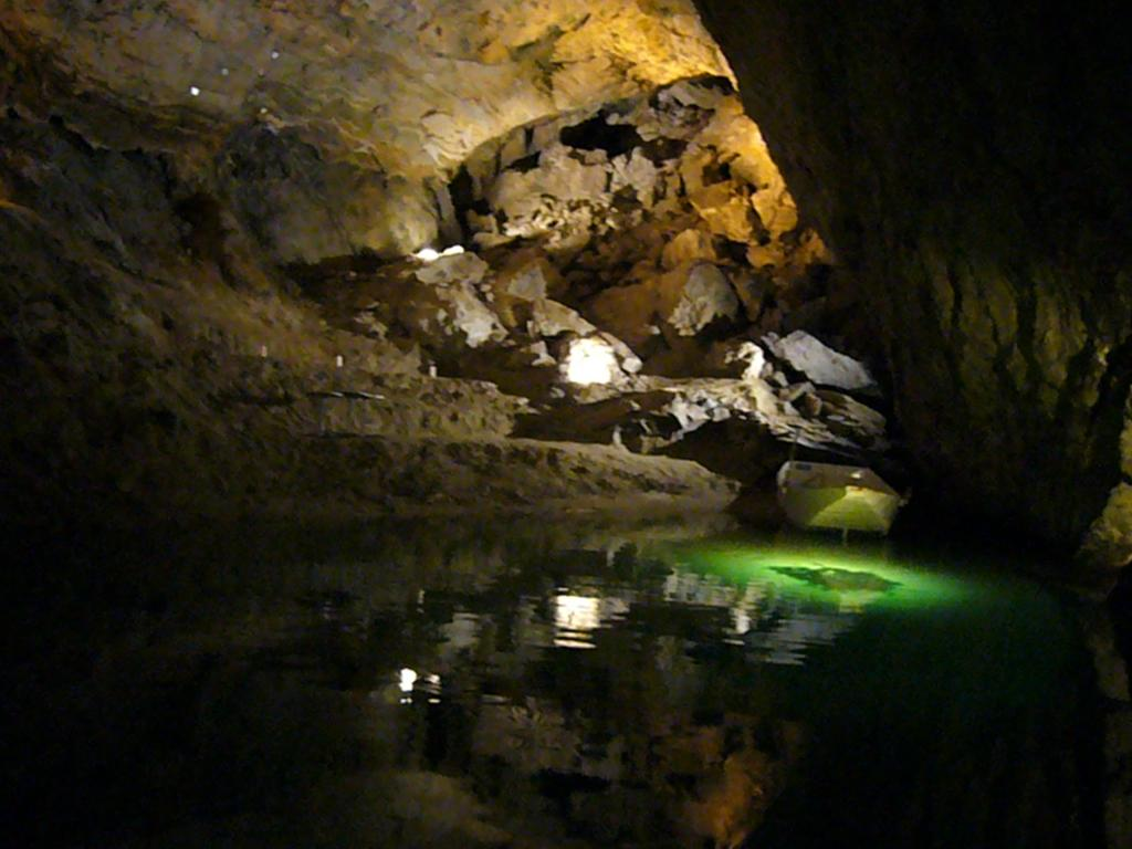 Saint-Léonard underground lake